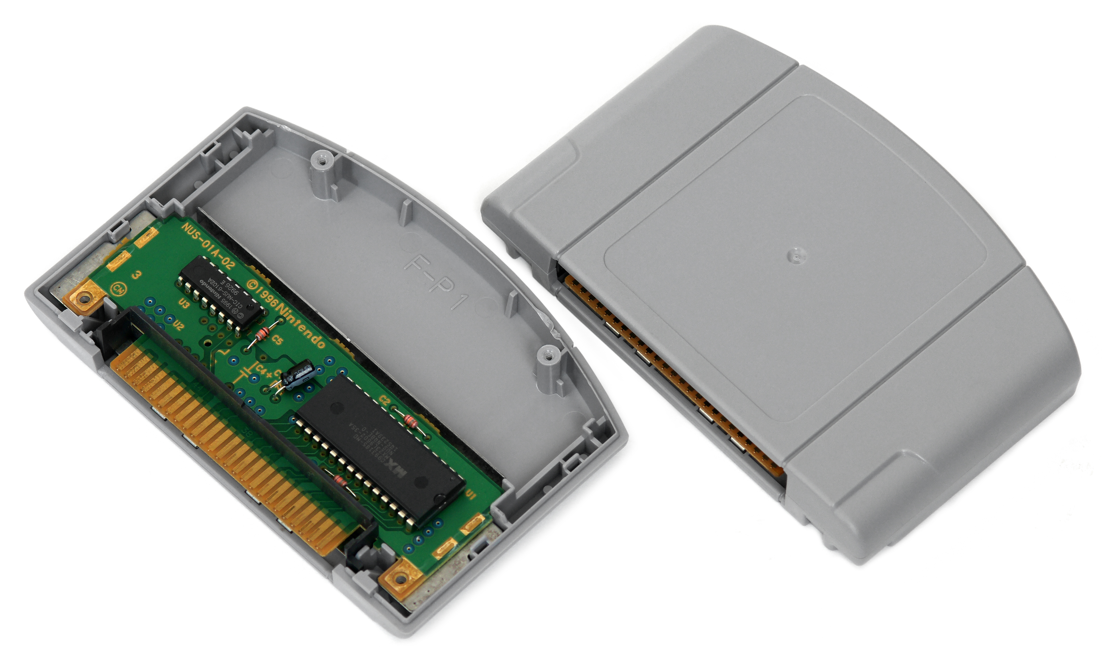 An N64 video game cartridge, both open and not.